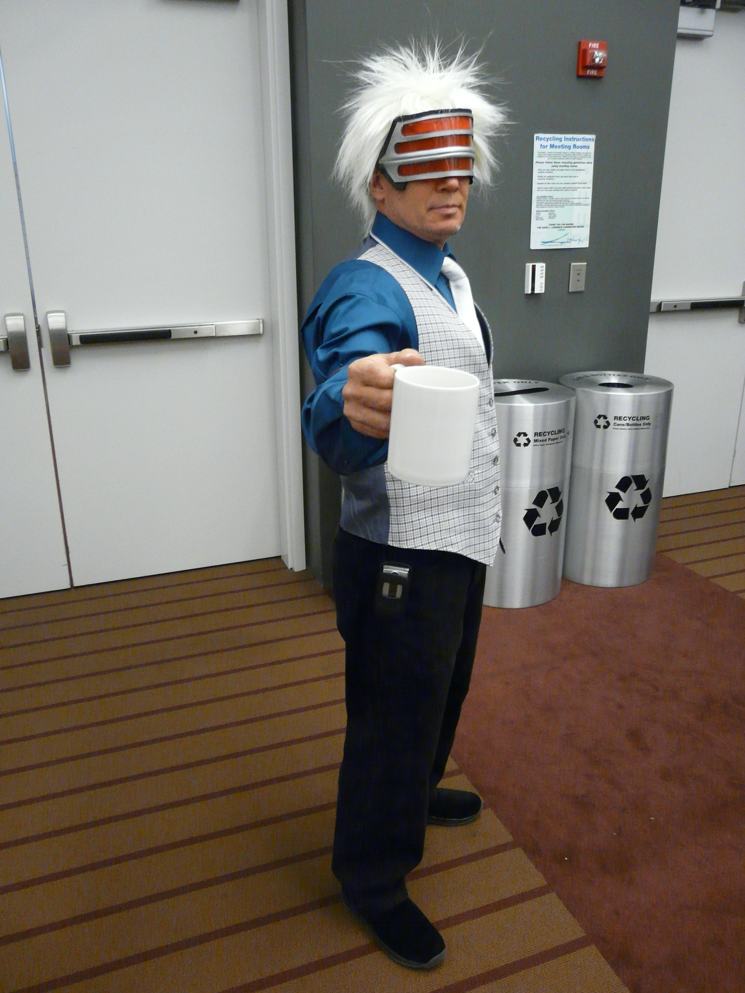 Tekkoshocon at David L. Lawrence Convention Center (2010)